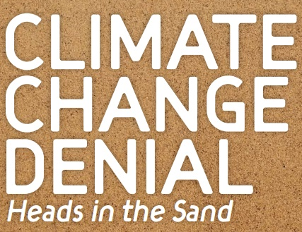 Climate Change Denial: Heads in the Sand book cover, cropped to text-only portion of title.